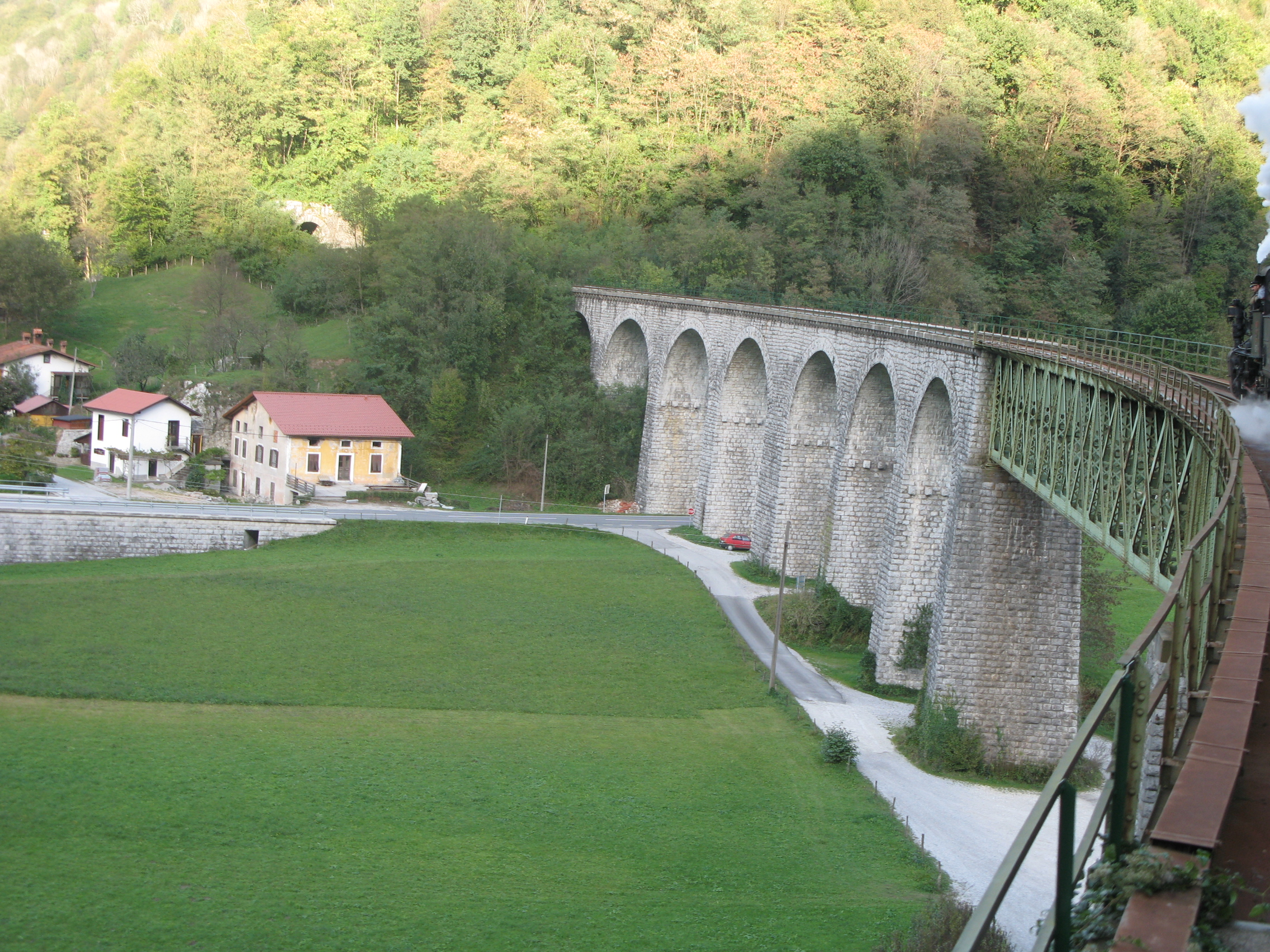 Railway tunnel on the Bohinj railway